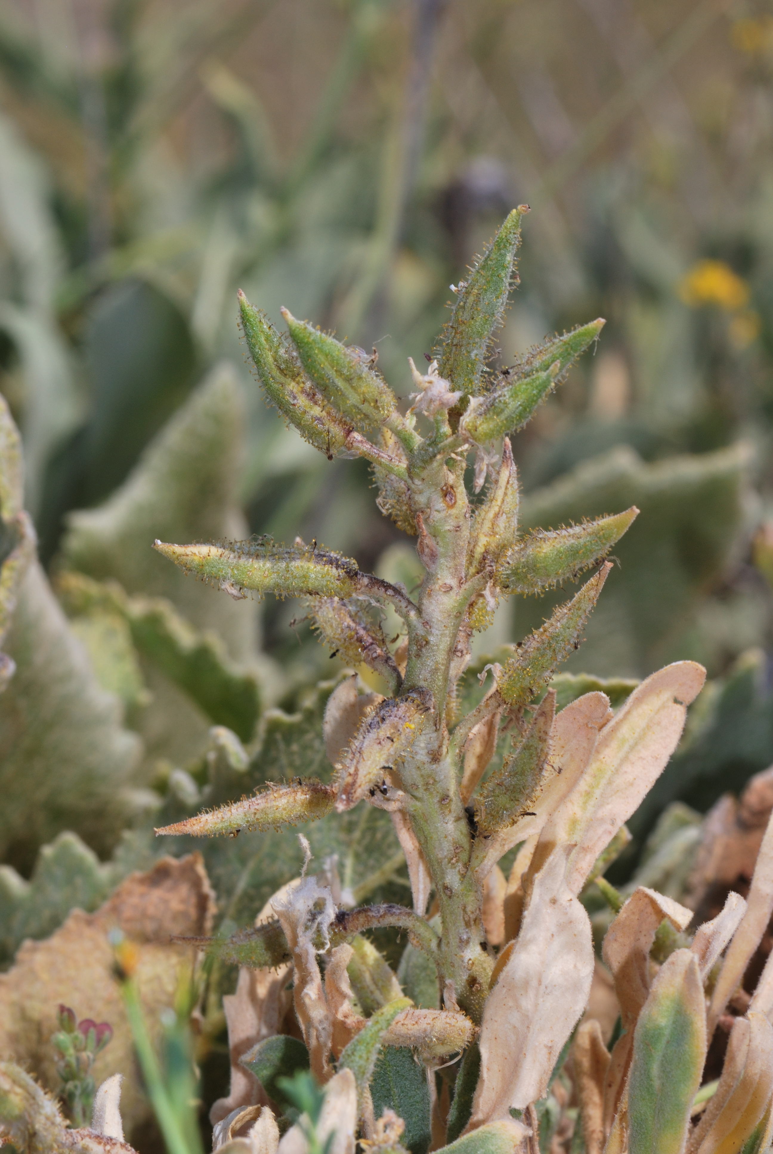 Anchonium billardierei DC. in fruit, Mount Hermon, Israel/Syria, July 9, 2011.